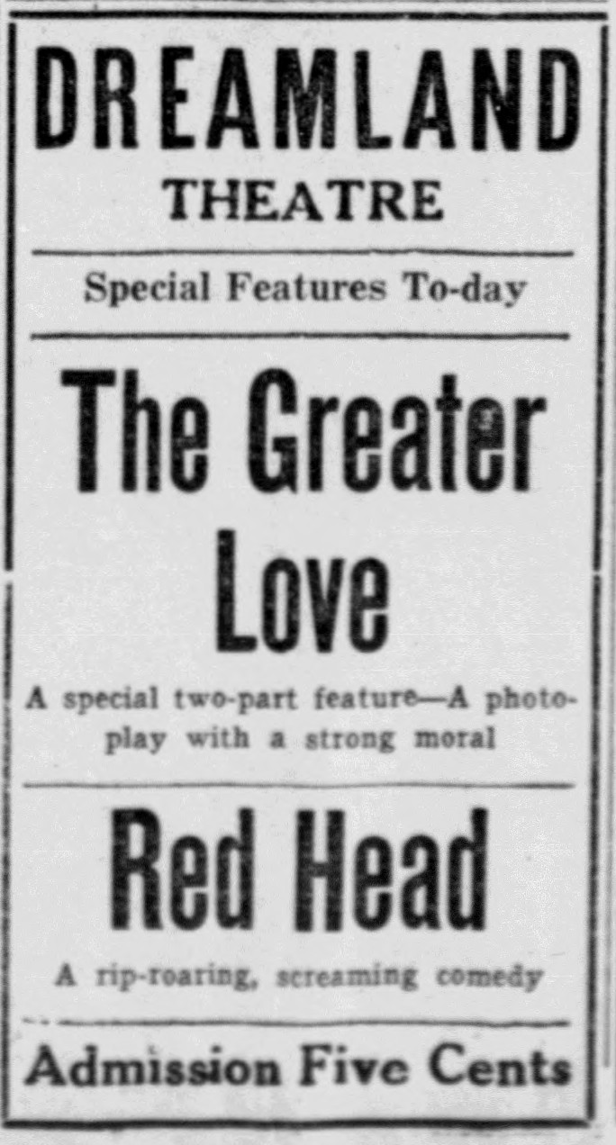 Newspaper advert for The Greater Love